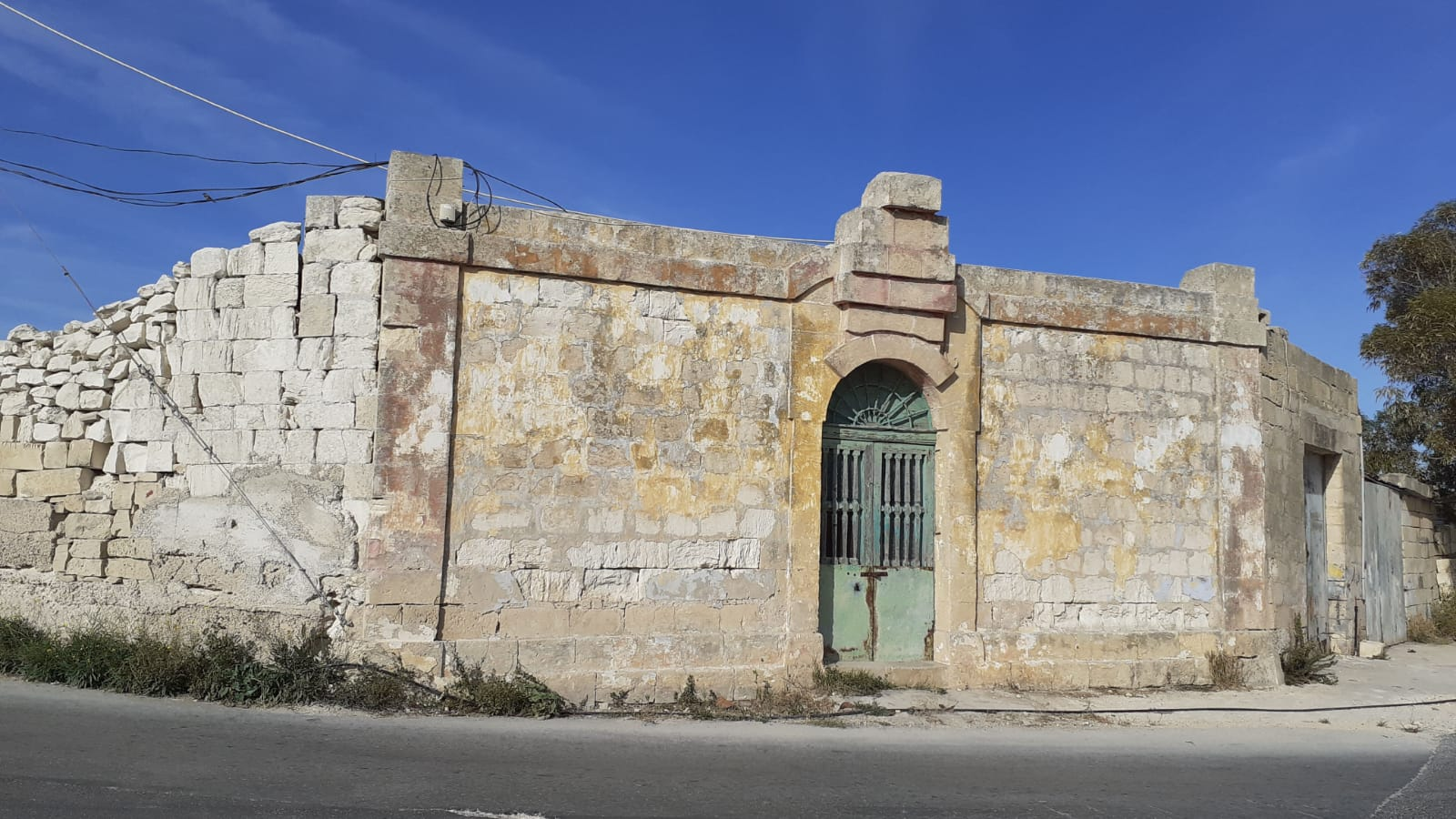 Gnien tal-Kuntnent, Zebbug